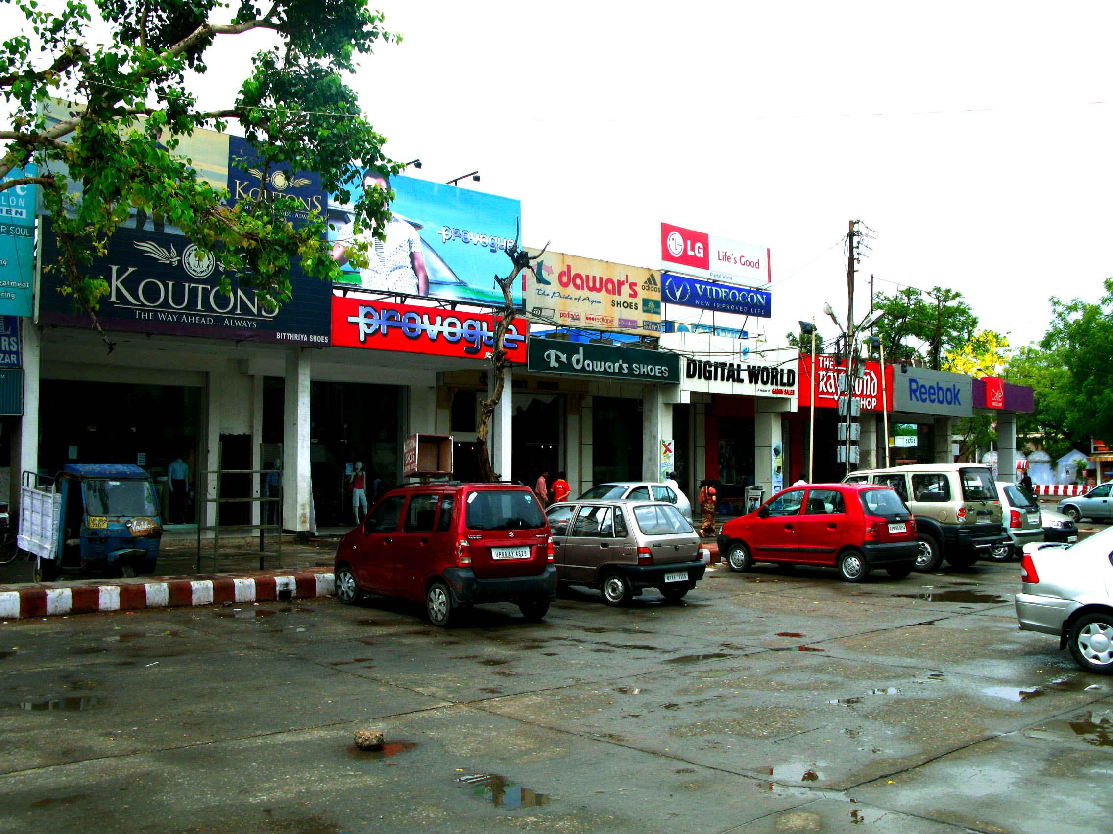 The Sadar Bazar market in the Cantonment area in Agra, U.P.